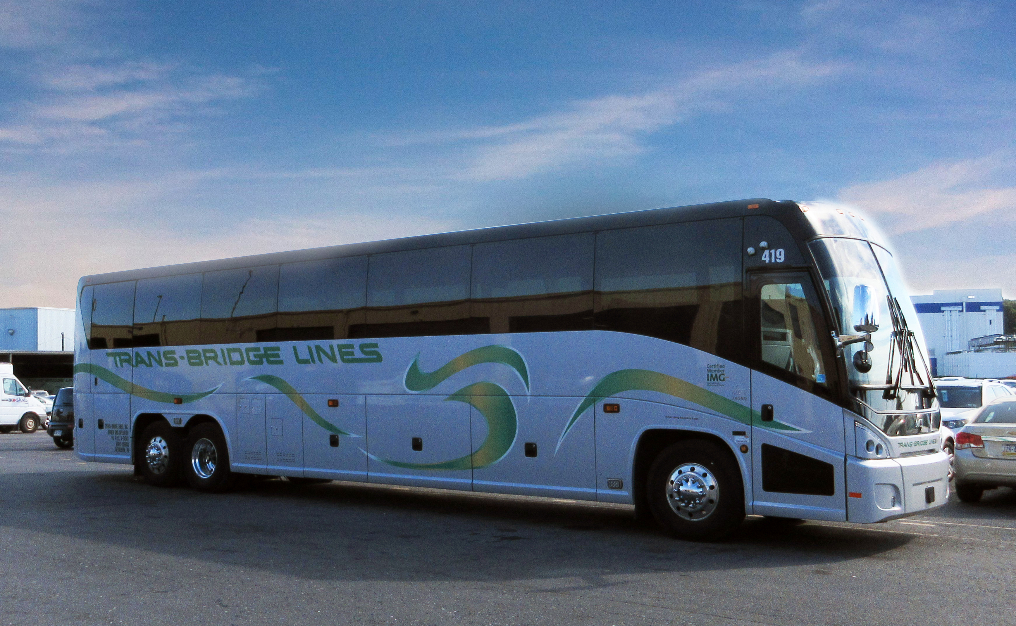 Bus 419